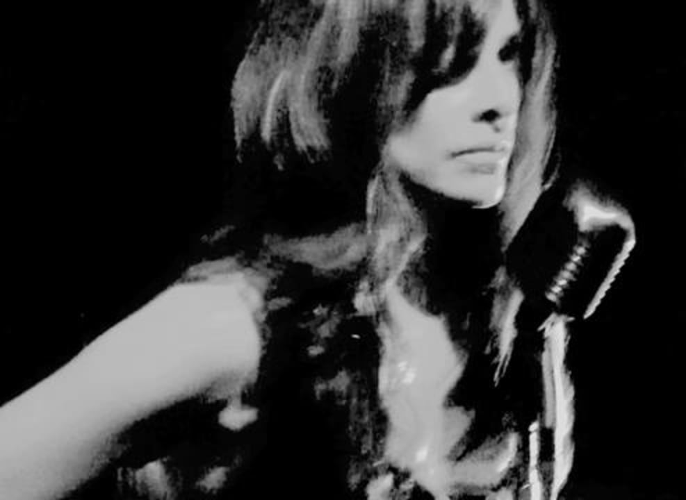 Singer and actress Sarah Lassez,singing in Los Angeles, "Paris à la Poubelle" Piano Bar Edition.